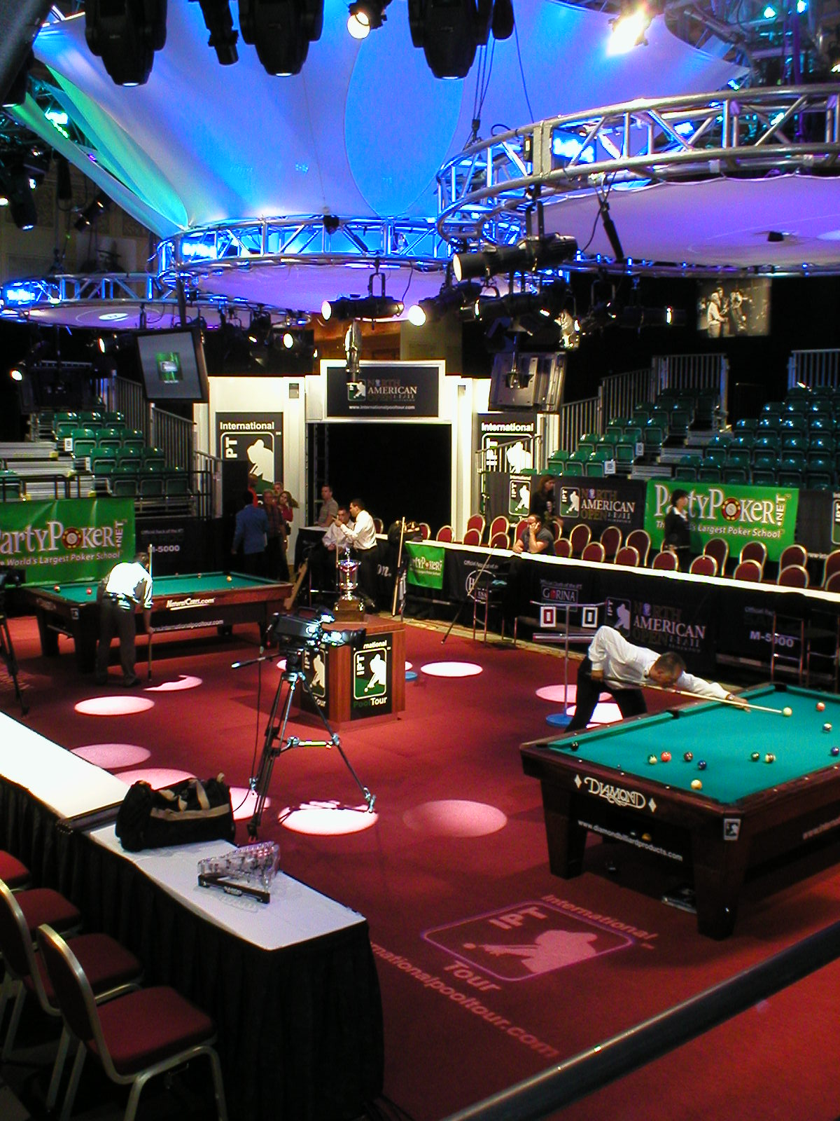 This is my own personal photo that I took with my camera and can be released to the public domain.